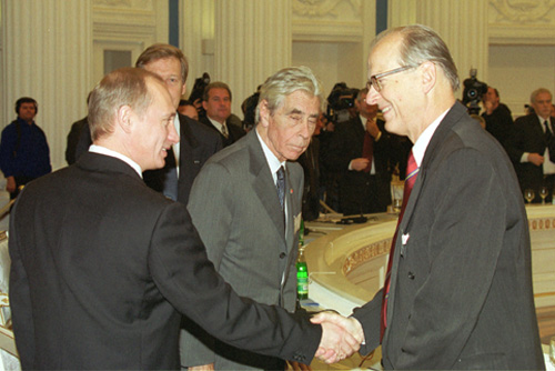 THE KREMLIN, MOSCOW. President Putin with Luzius Wildhaber, the President of the European Court of Human Rights, during a meeting of the presidents of the constitutional courts of European and CIS countries.